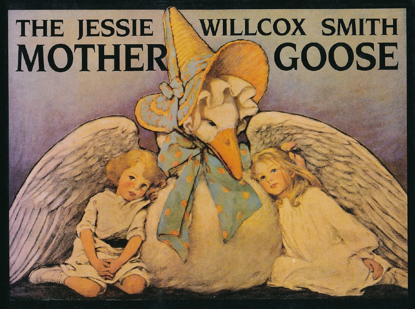 The Jessie Willcox Smith Mother Goose published by Dodd, Mead and Company December 1914